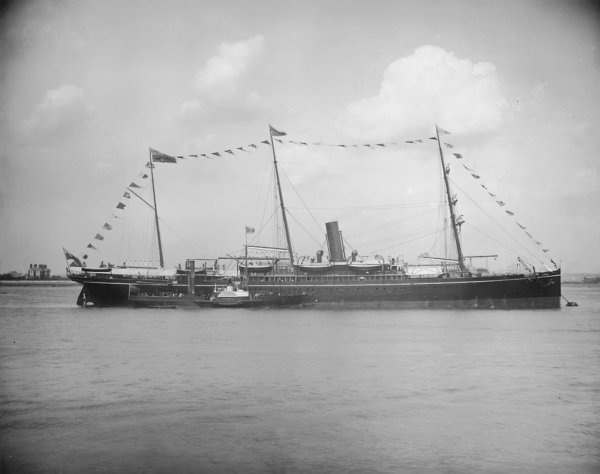 Reproduction ID: H3806 Maker: Unknown Date: 1900